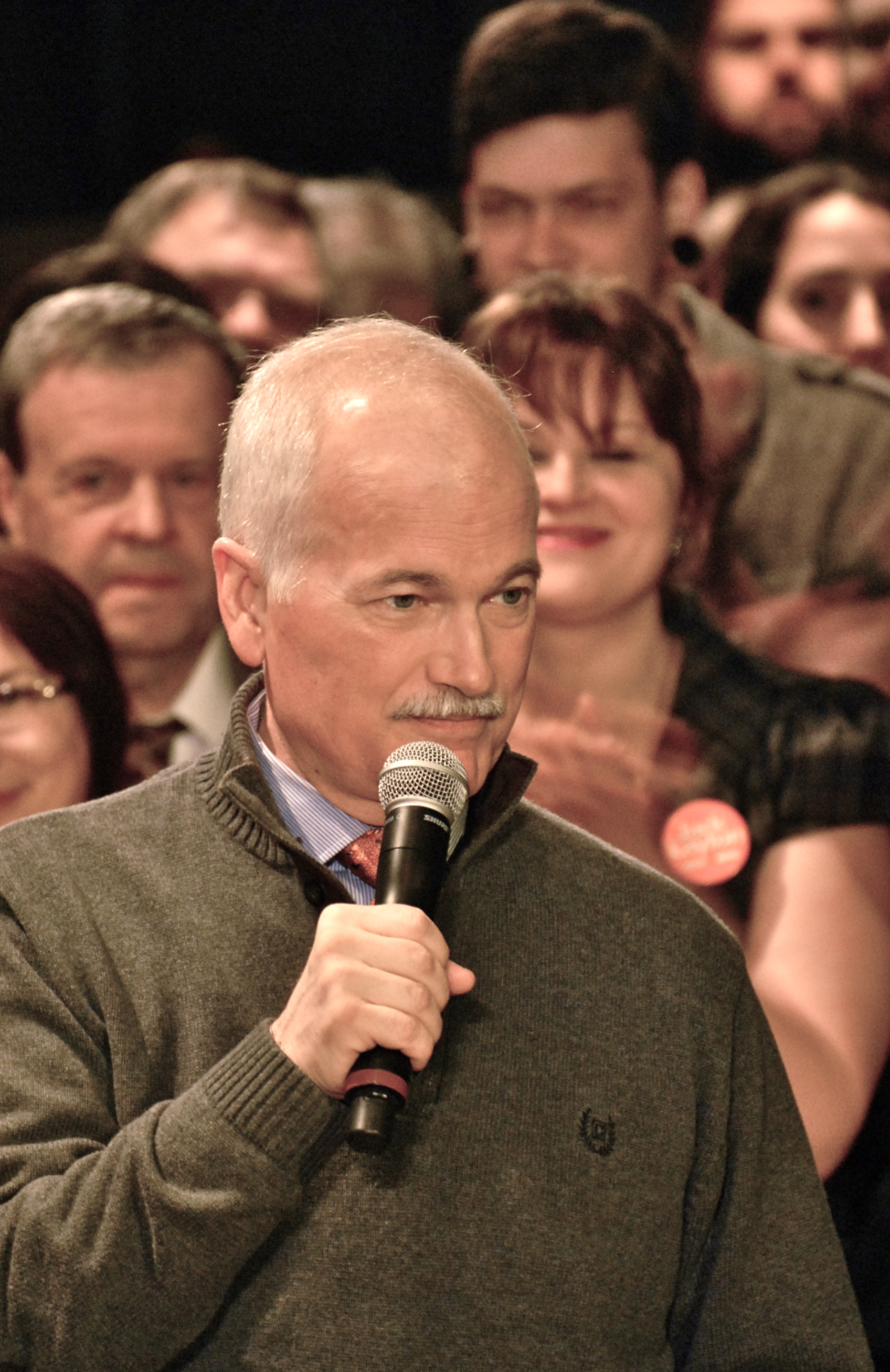 Jack Layton 18 April, 2011 in Québec during the federal electoral campaign